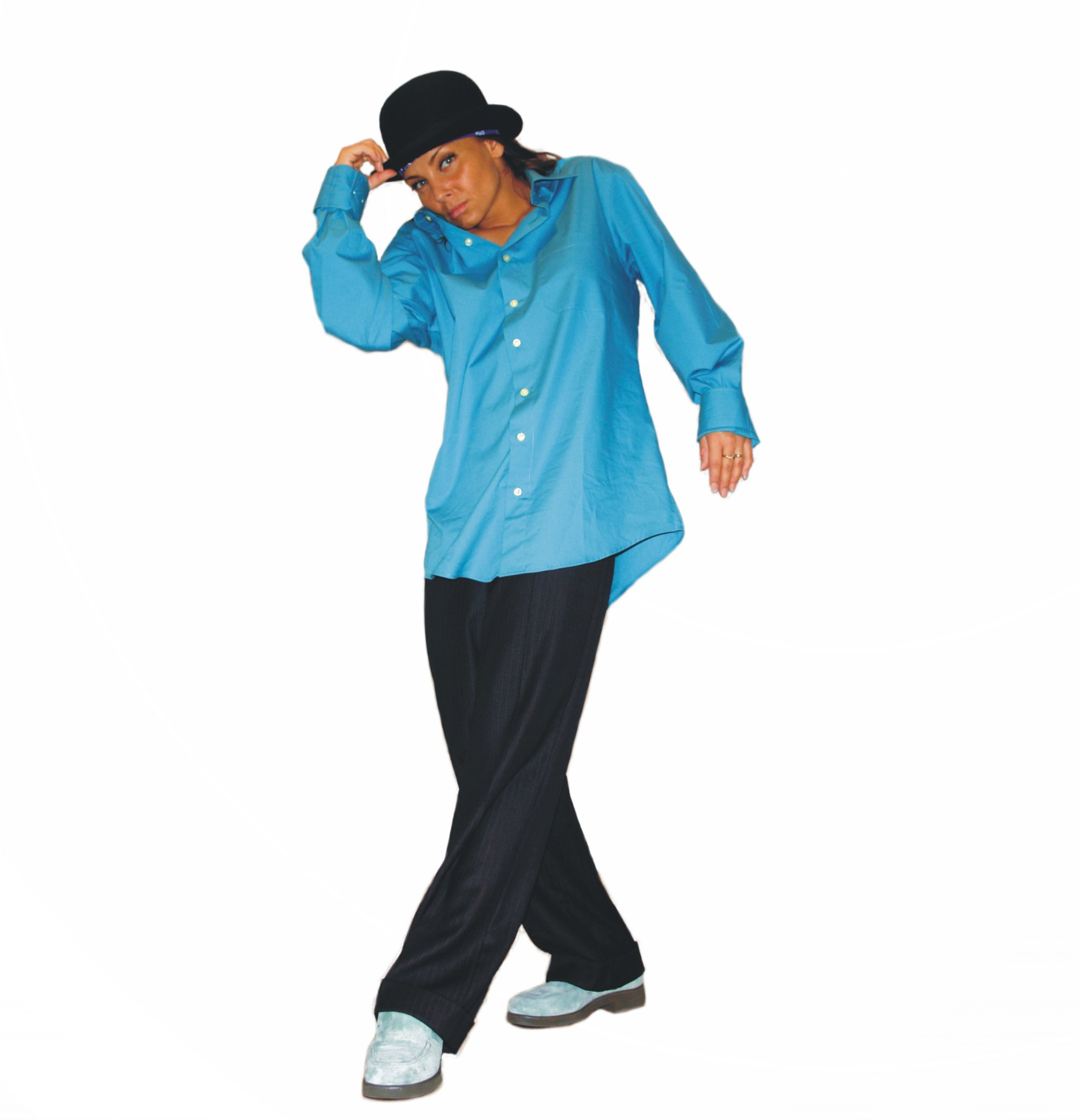 Jo-Dance zeigt einen Basis Schritt (walk out) aus dem Poppin Boogaloo, bei einer Funk Style Performance, choreographiert und getanzt von Jo-Dance. Jo-Dance is performing a basic Poppin Boogaloo move, the walk out, during a Funk Style performance choreographed and performed by Jo-Dance